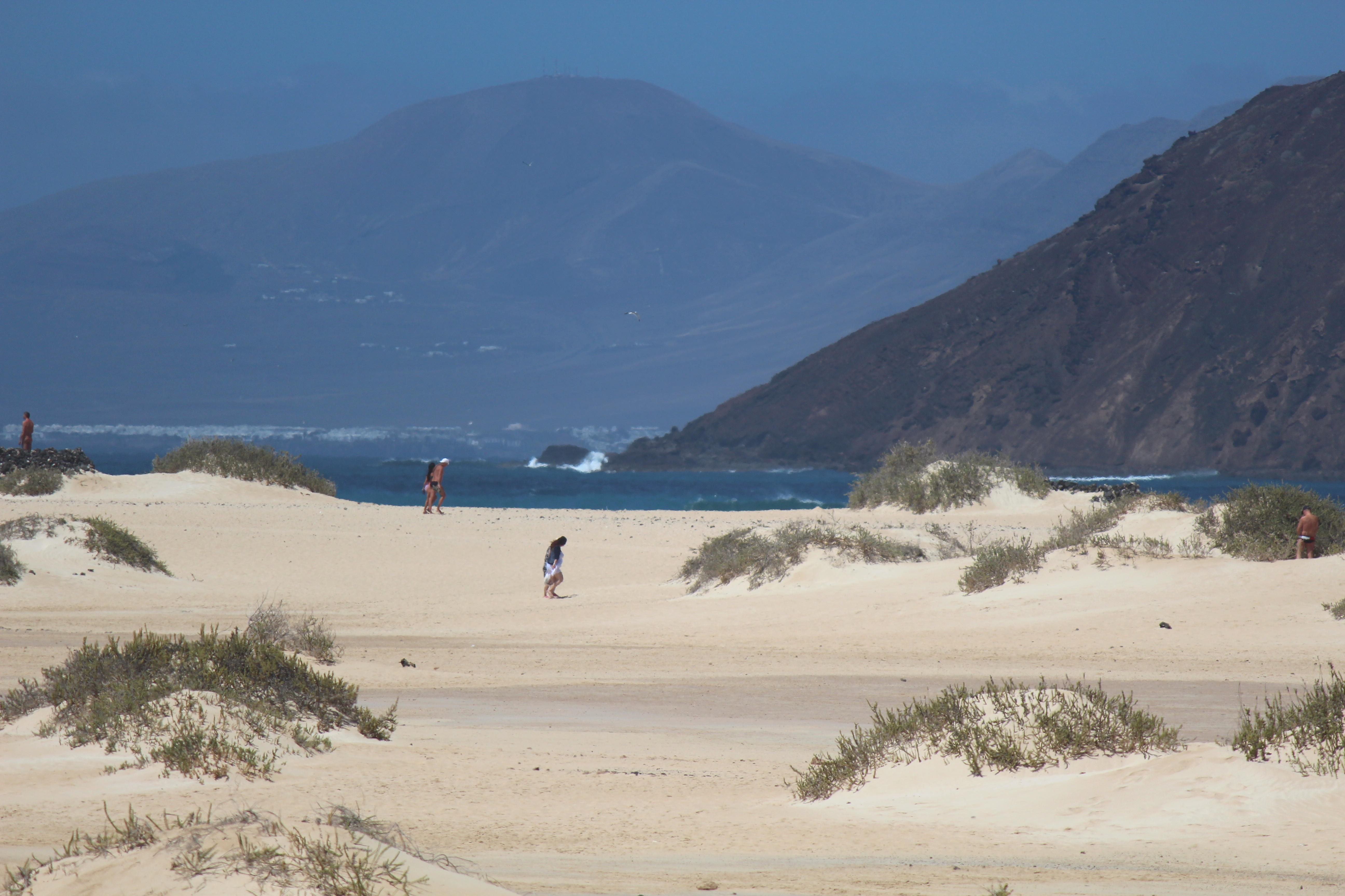 Tres islas: Fuerteventura (Dunas de Corralejo), Isla de Lobos (derecha) y Lanzarote (fondo, izquierda). // Three islands: Fuerteventura (front), Isla de Lobos (right), Lanzarote (back, left). Dunas de Corralejo, La Oliva, Fuerteventura. This is a photography of a Special Area of Conservation in Spain with the ID: ES7010032. Natura2000 entry, EEA entry